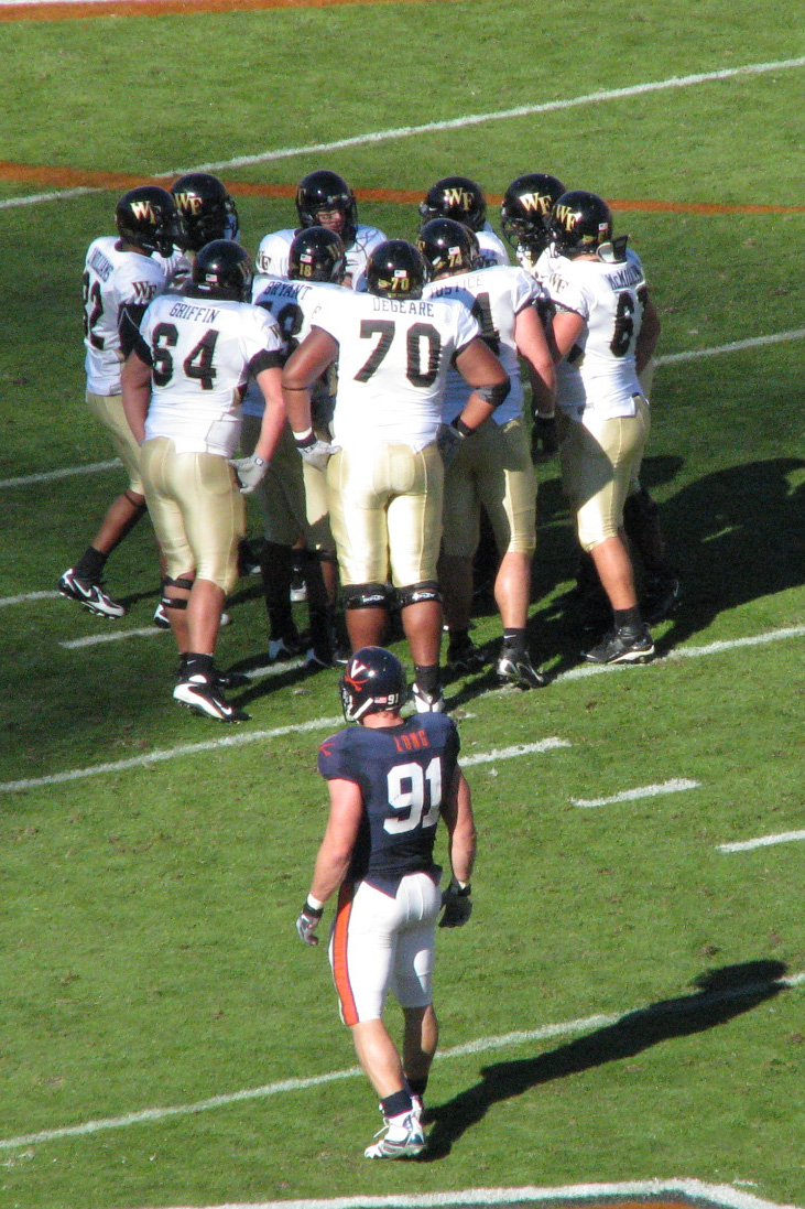 American football game between the the 2007 Wake Forest Demon Deacons and the 2007 Virginia Cavaliers on November 3, 2007.